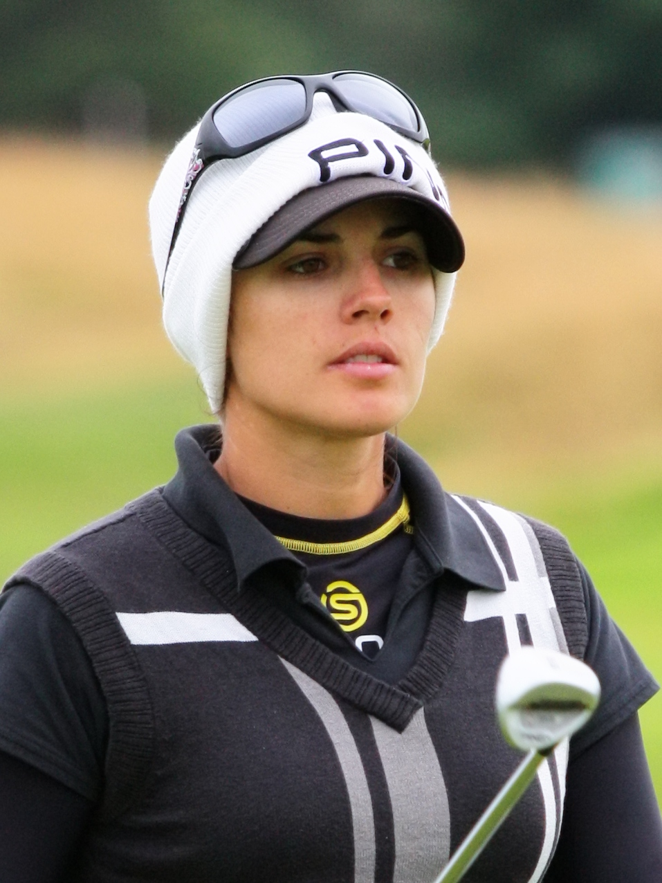 LYTHAM ST ANNES, UNITED KINGDOM - JULY 29: Nikki Garrett of Australia on the 4th green during third practice round before 2009 Ricoh Women's British Open held at Royal Lytham & St Annes on July 29, 2009 in Lytham St Annes, England. (Photo by Wojciech Migda)